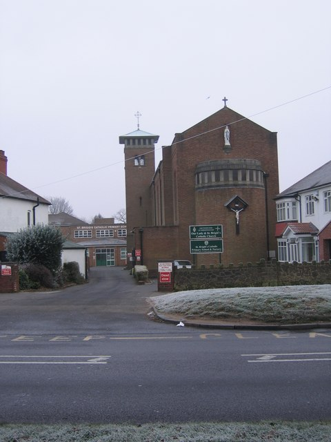 St Bridget's RC Church, Frankley Beeches Road, Northfield The Roman Catholic Church on Frankley Beeches Road Northfield.